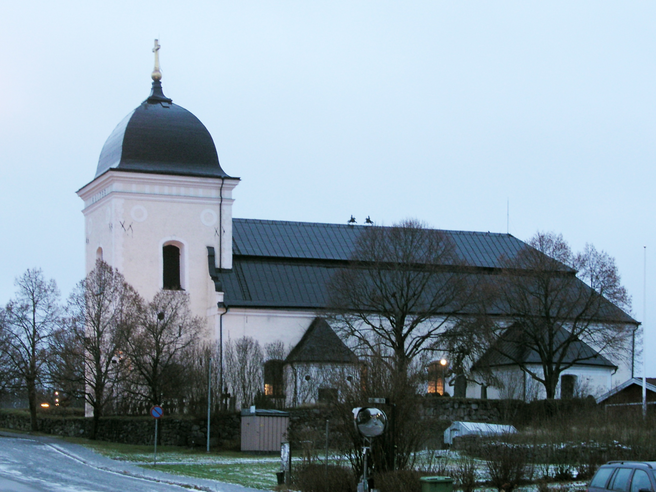 Kimstads kyrka, Diocese of Linköping, Norrköpings kommun. The picture was taken the 4th of December 2005 by Håkan Svensson (Xauxa).